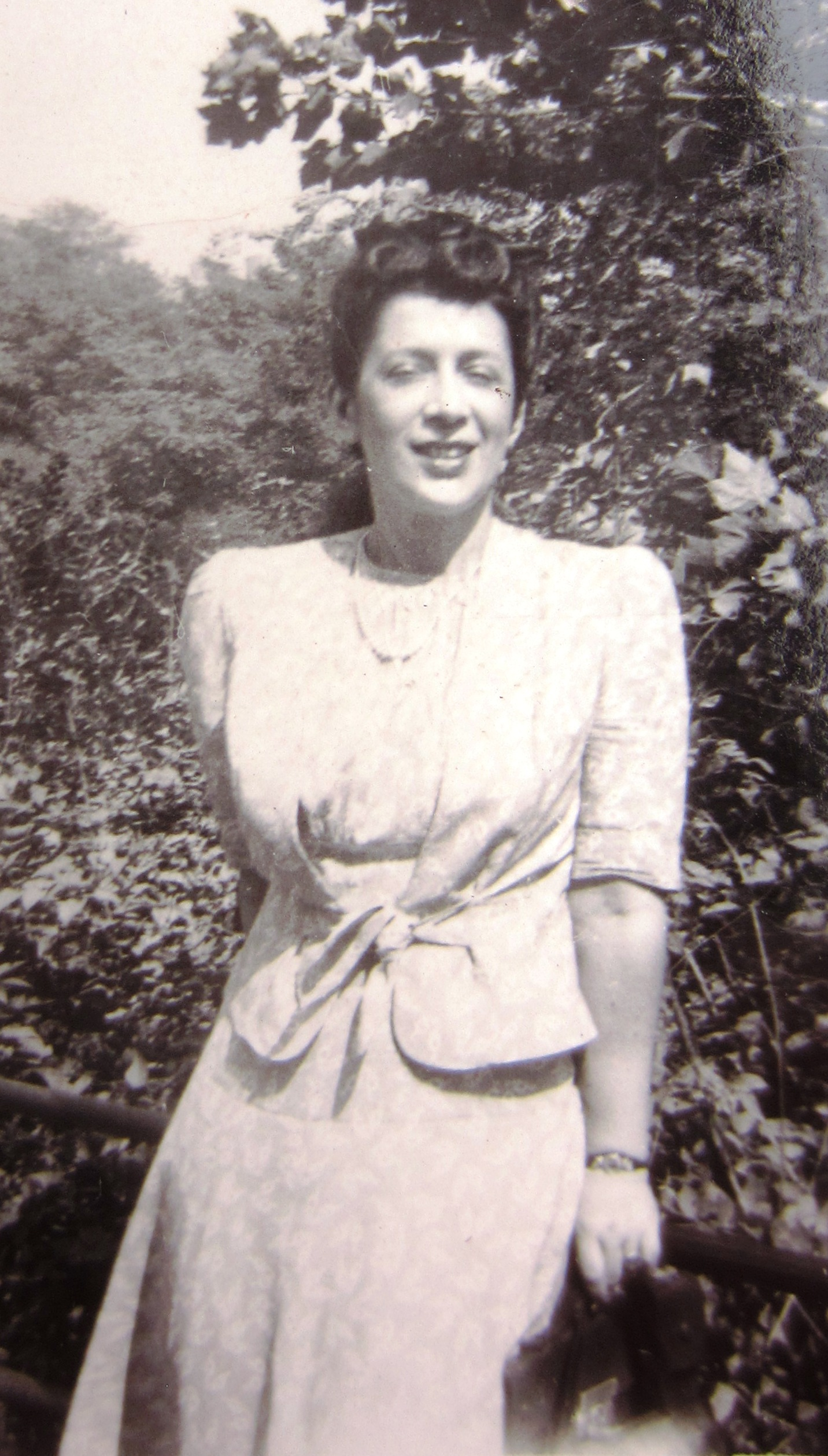 Eugénie Söderberg-Perls in Central Park N.Y. after 1940. She was widow after Mikael Söderberg and remarried in 1941 with Hugo Perls in New York.